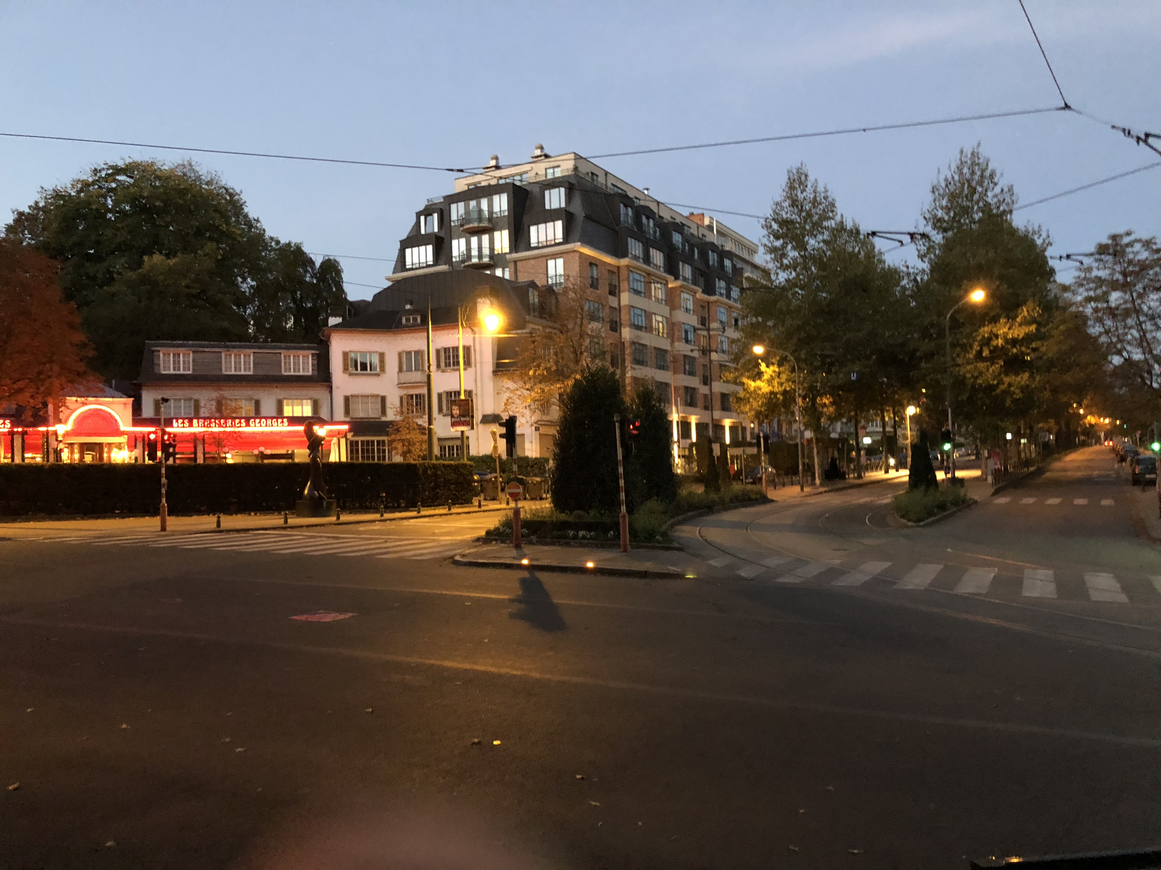 Winston Churchill Avenue (Uccle)